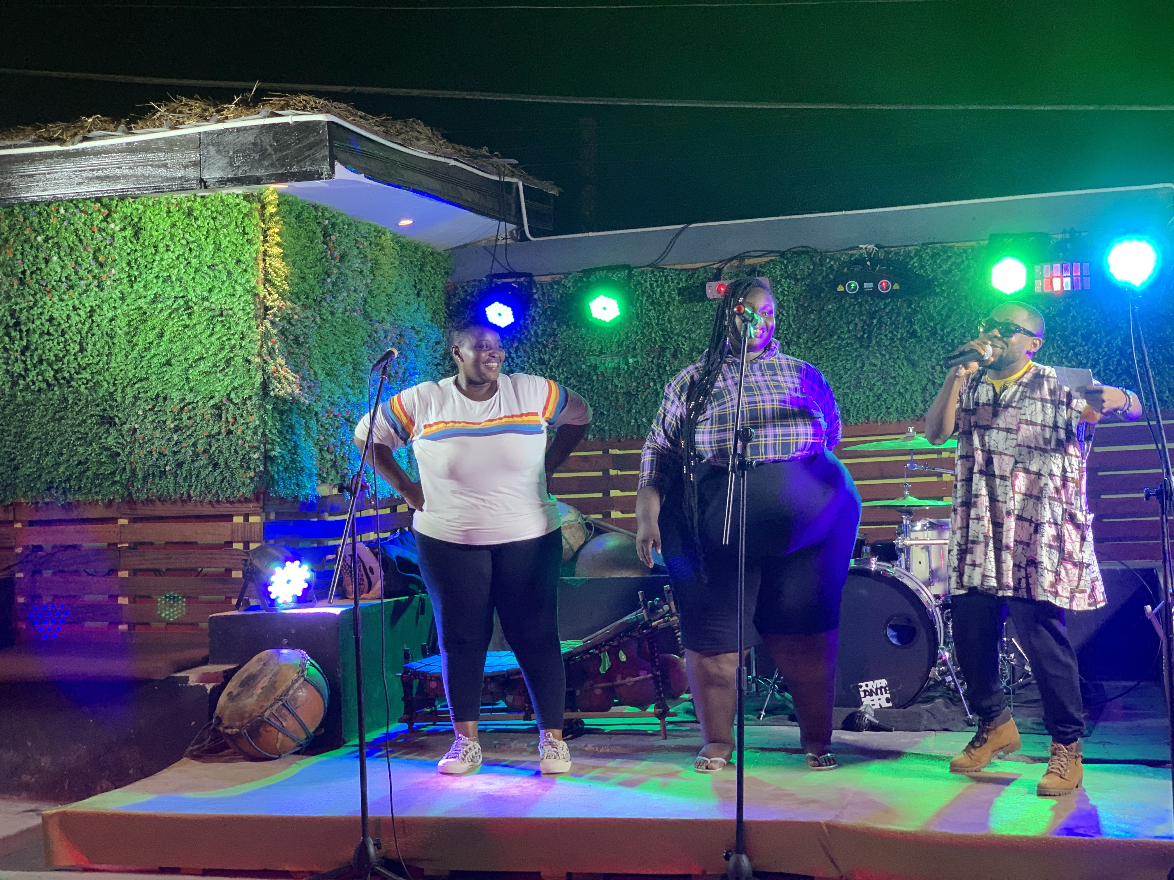 PM - "Di Asa"(A well known dance competition in Ghana for obese women) Winner on stage to perform at the Batakari Festival at Kono Bar at Osu